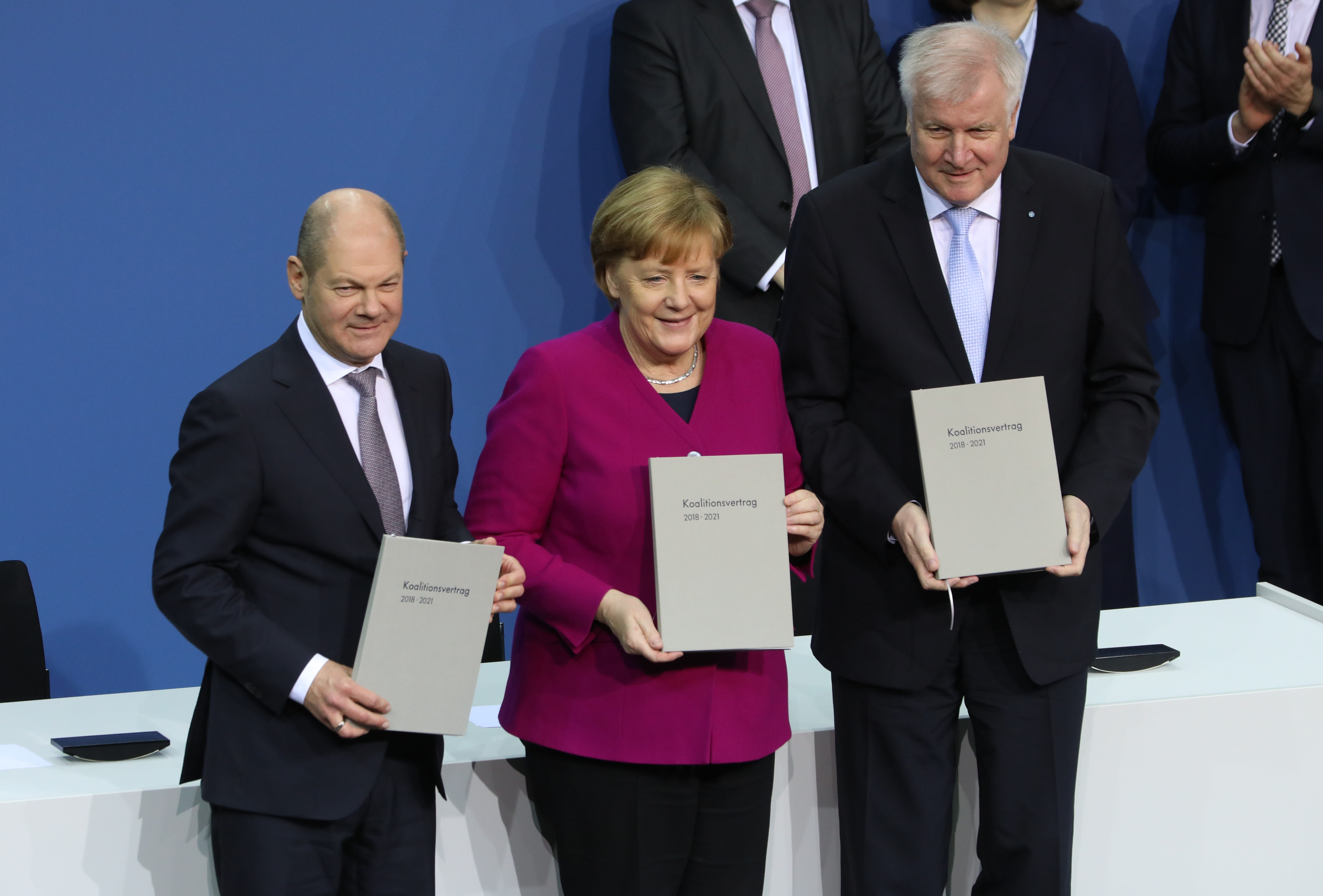 Signing of the coalition agreement for the 19th election period of the Bundestag: Olaf Scholz, Angela Merkel, Horst Seehofer